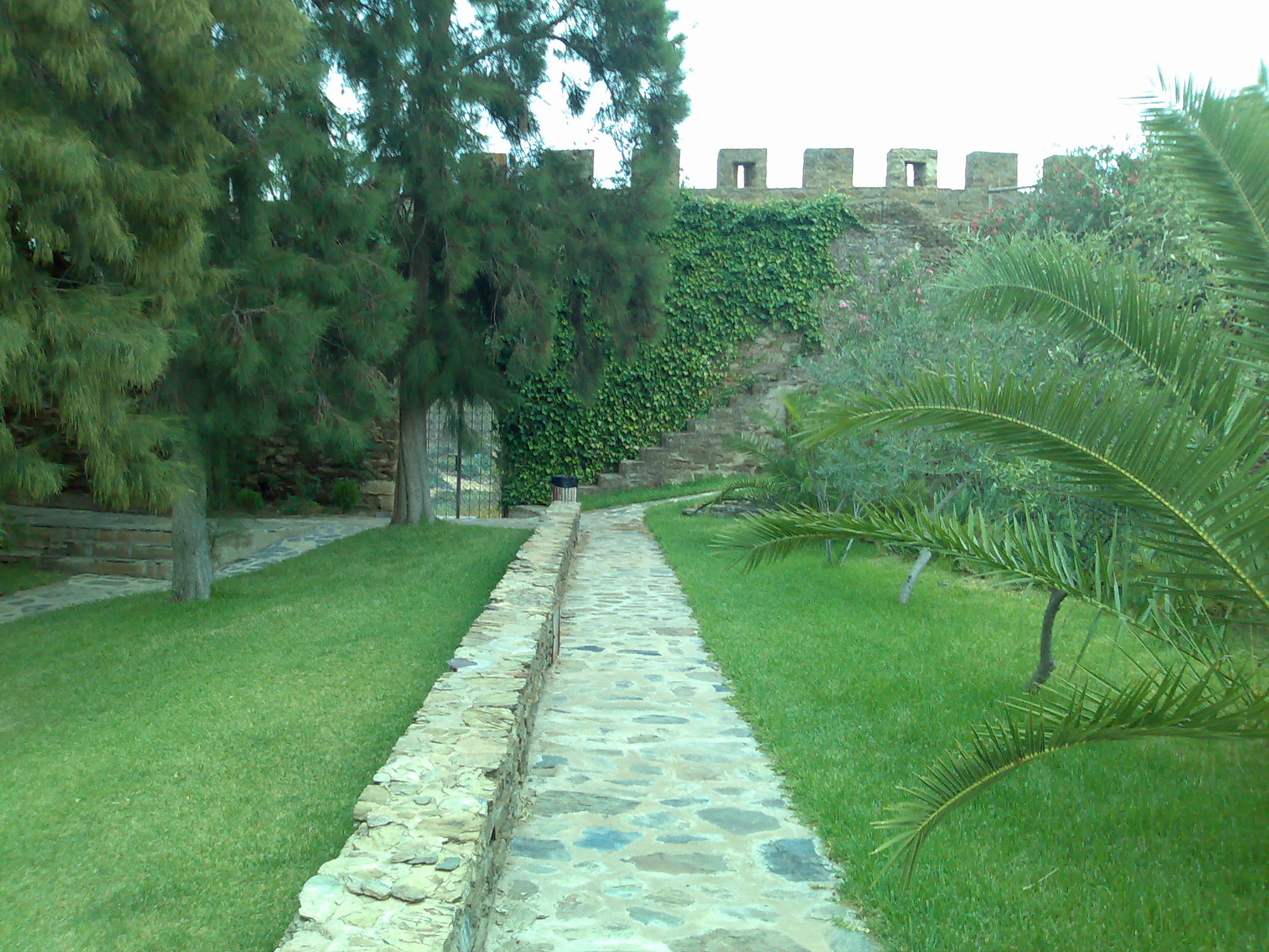 Alcoutim Castle (inside view)